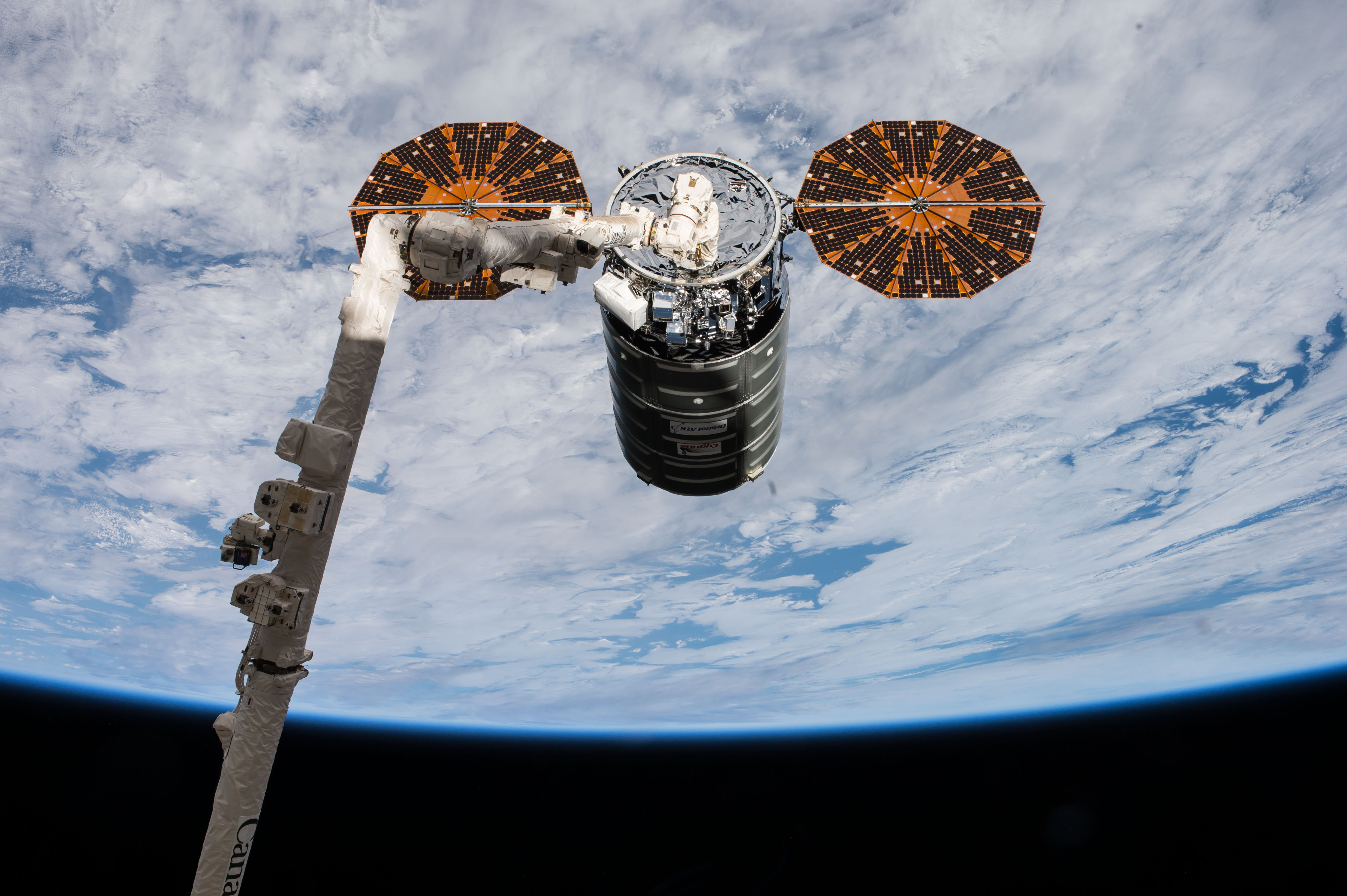 Cygnus Cargo Spacecraft Installed on ISS for Critical Supplies Delivery, November 14, 2017. The Cygnus spacecraft is pictured after it had been grappled with the Canadarm2 robotic arm by astronauts Paolo Nespoli and Randy Bresnik on Nov. 14, 2017.